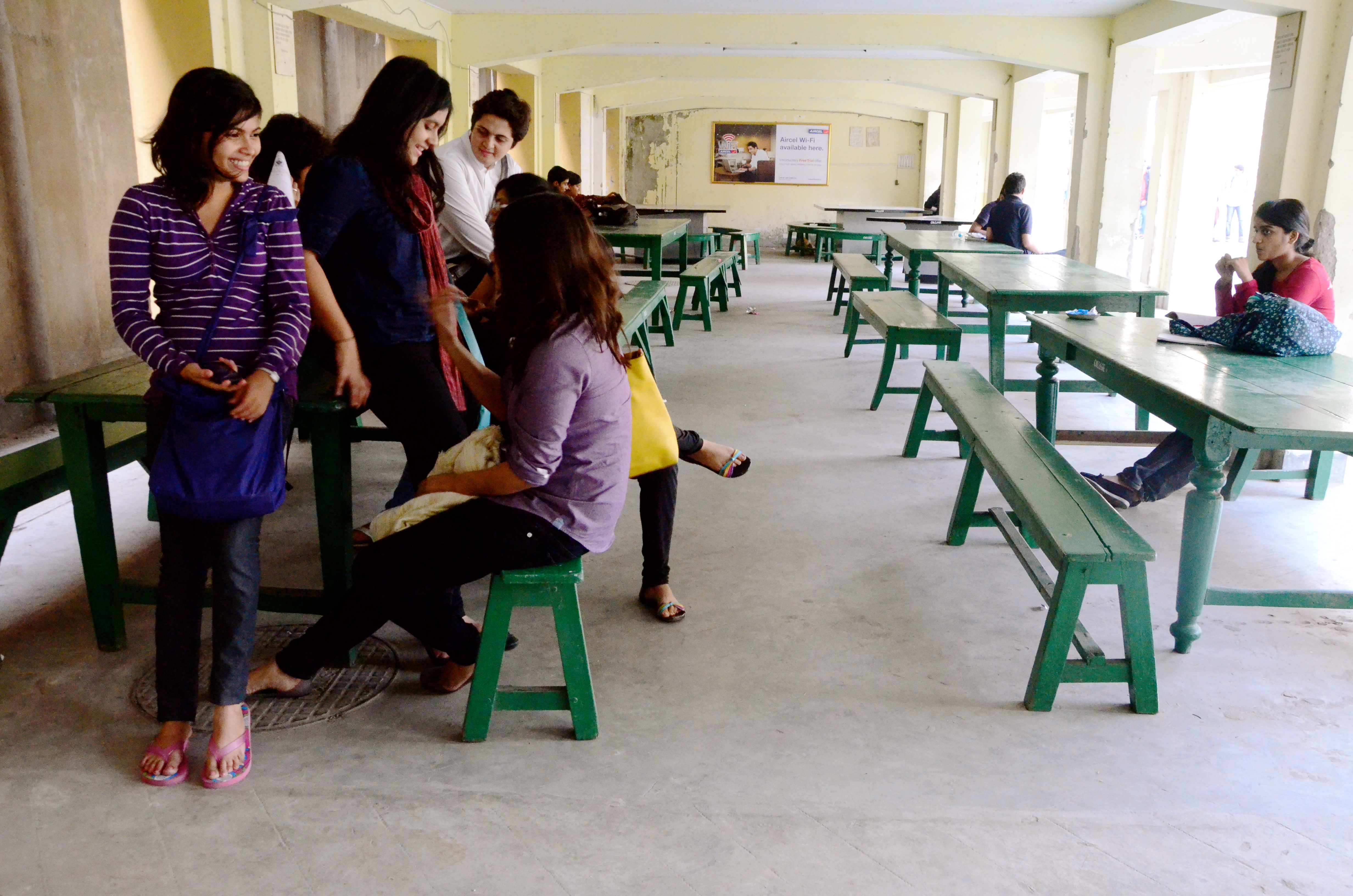 Green benches Back gate at St.Xaviers college, kolkata